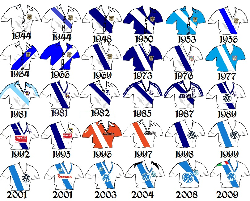 PueblA FC KIT EVOLUTION